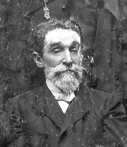 Martin Novacek (1834-1906)